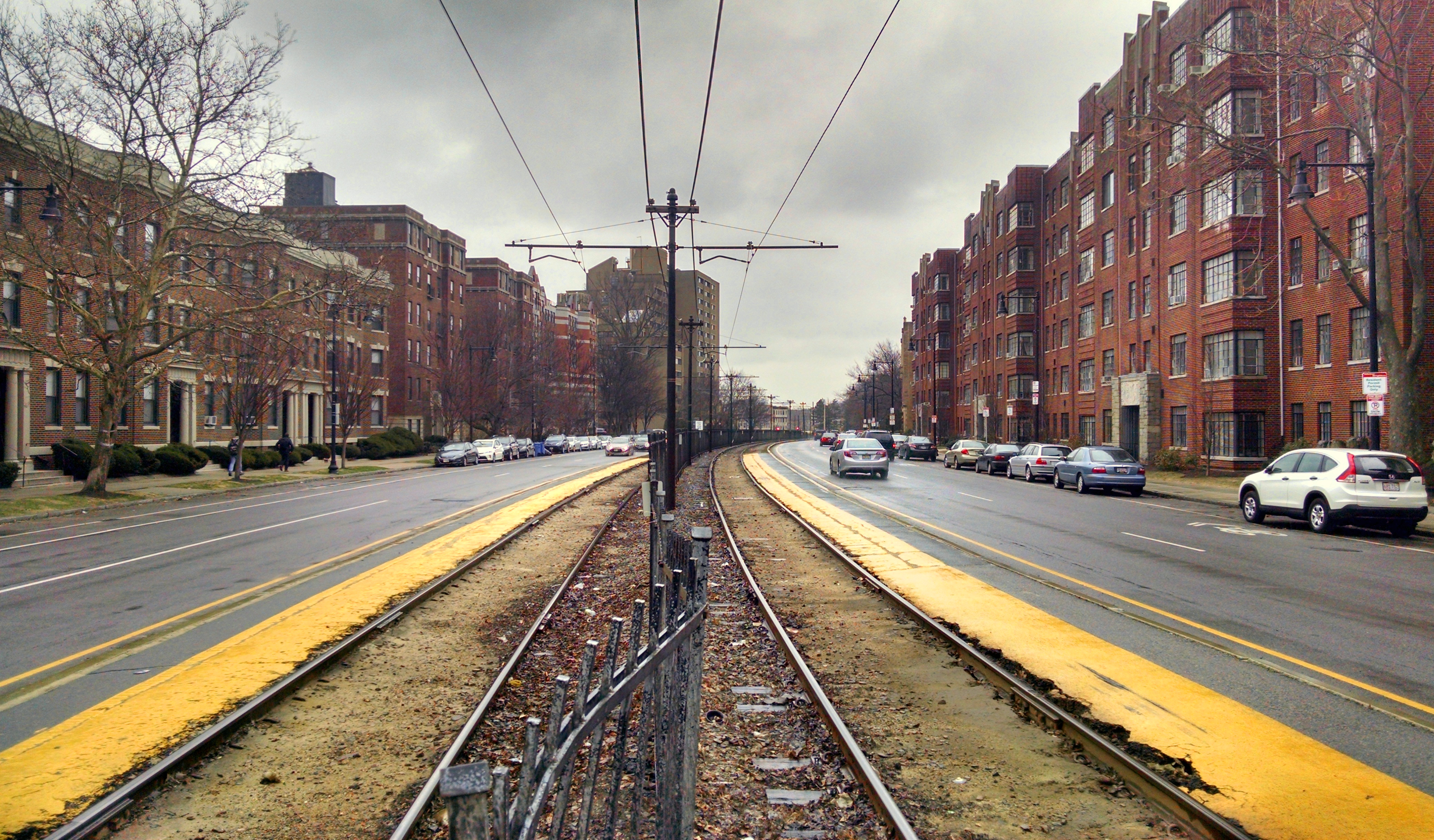 South Street station in April 2015